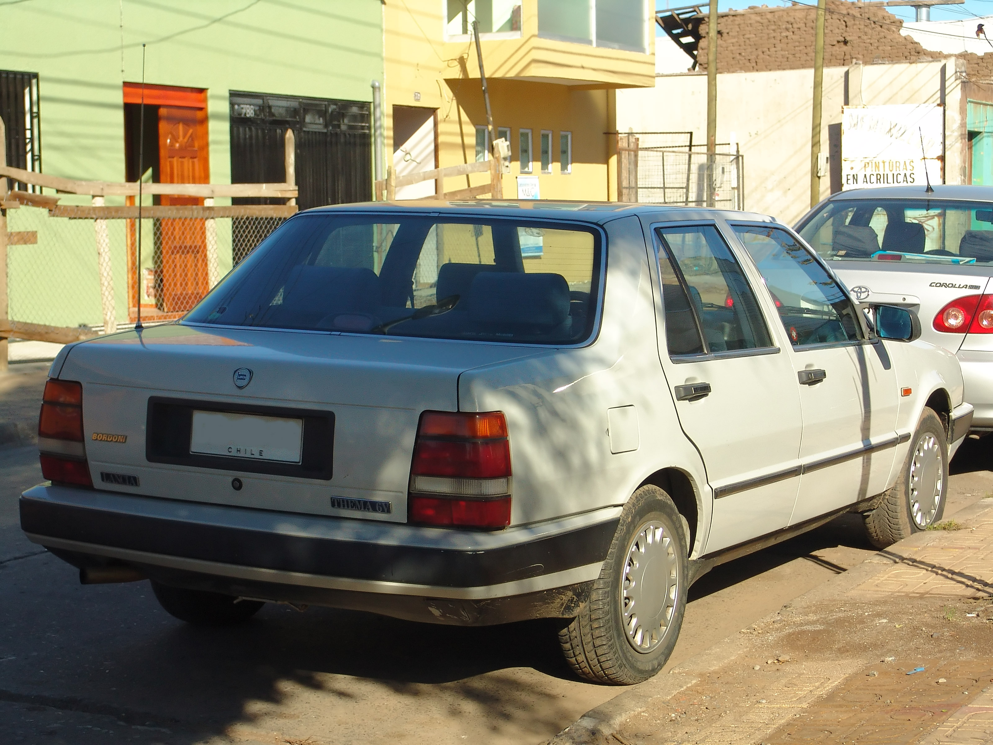 Lancia Thema 6V 1990